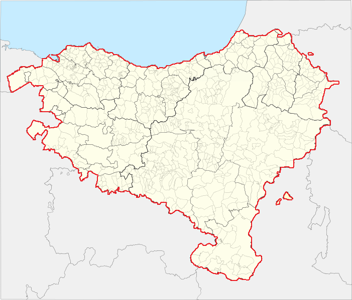 Borders of the Basque Country